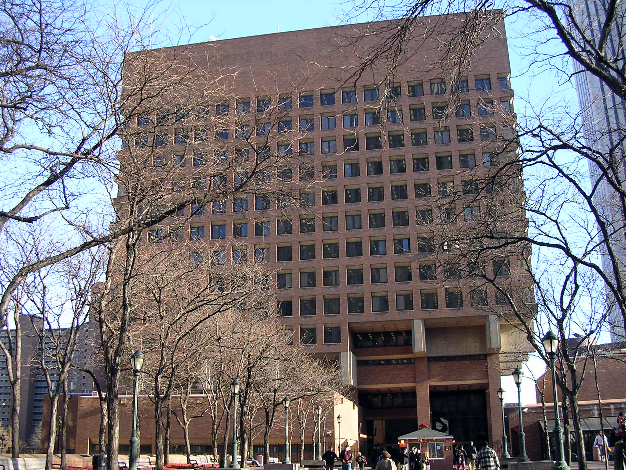 New York City Police Department headquarters